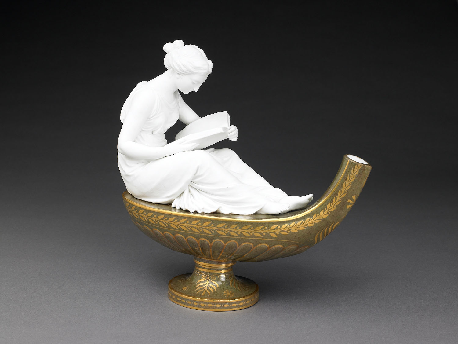 A hard-paste porcelain lamp manufactured at the Sèvres porcelain manufactory in France.